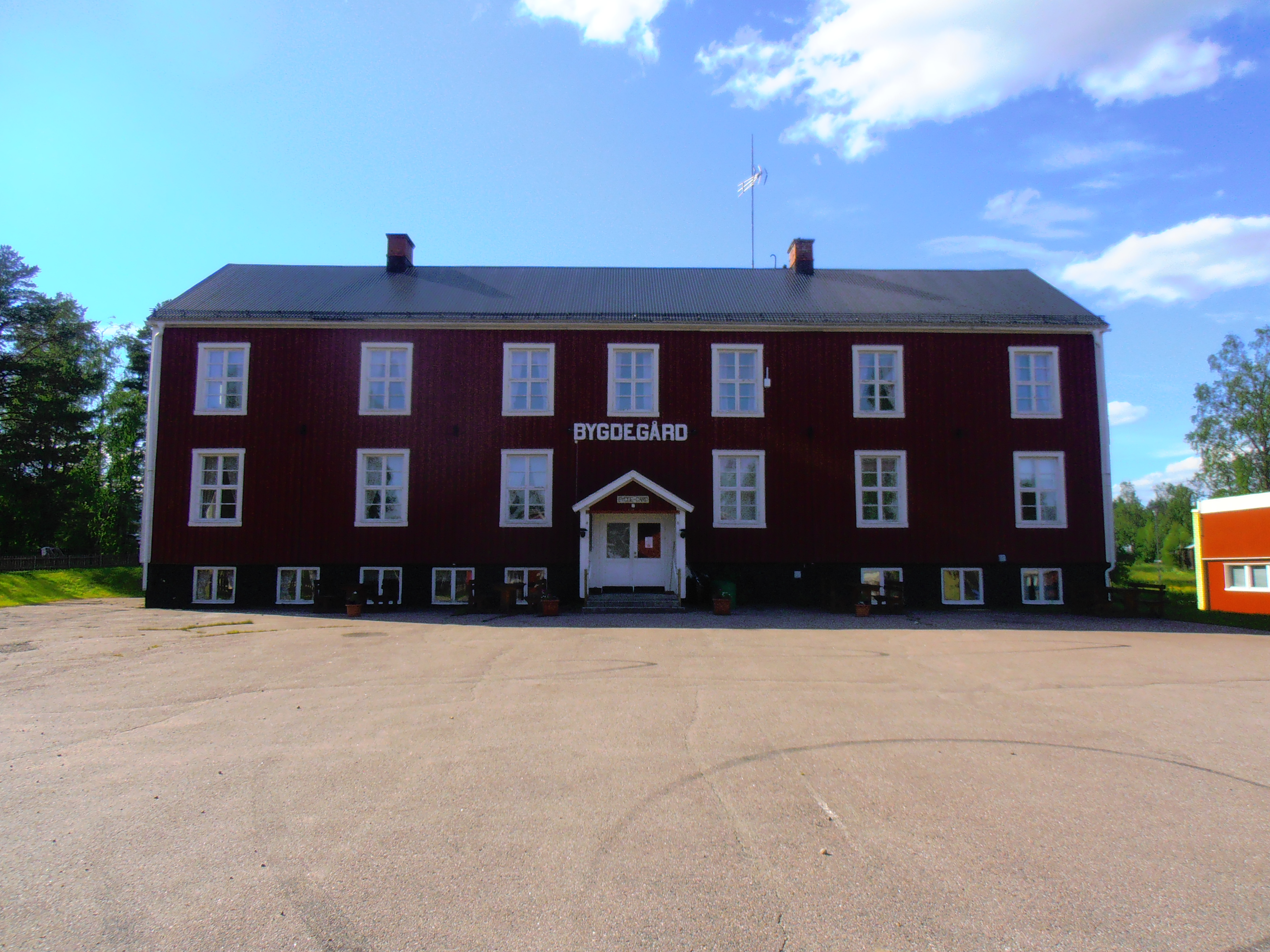 The "Bygdegården" in Hakkas, Gällivare